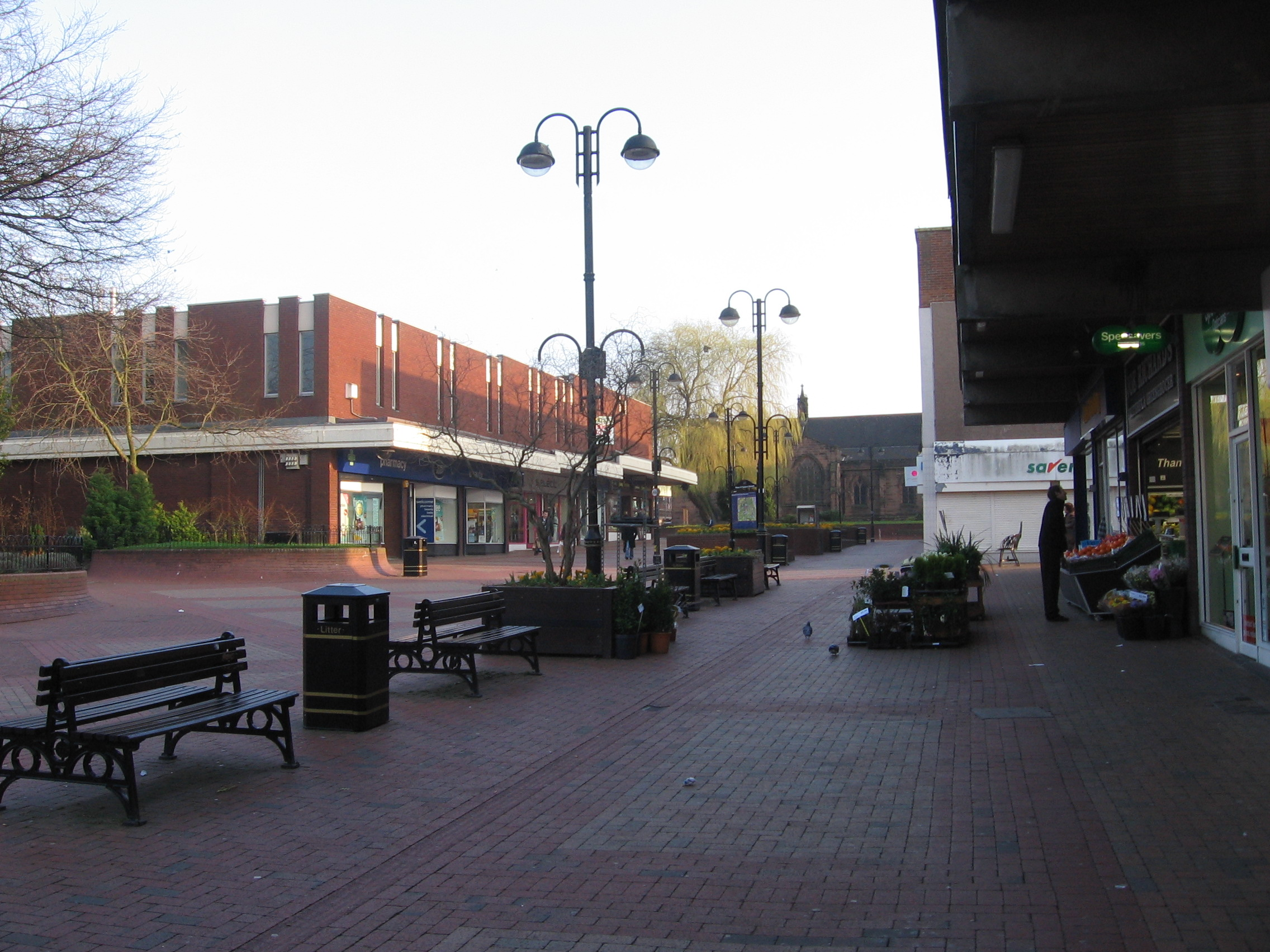 All Saint's Square, Bedworth, Warwickshire